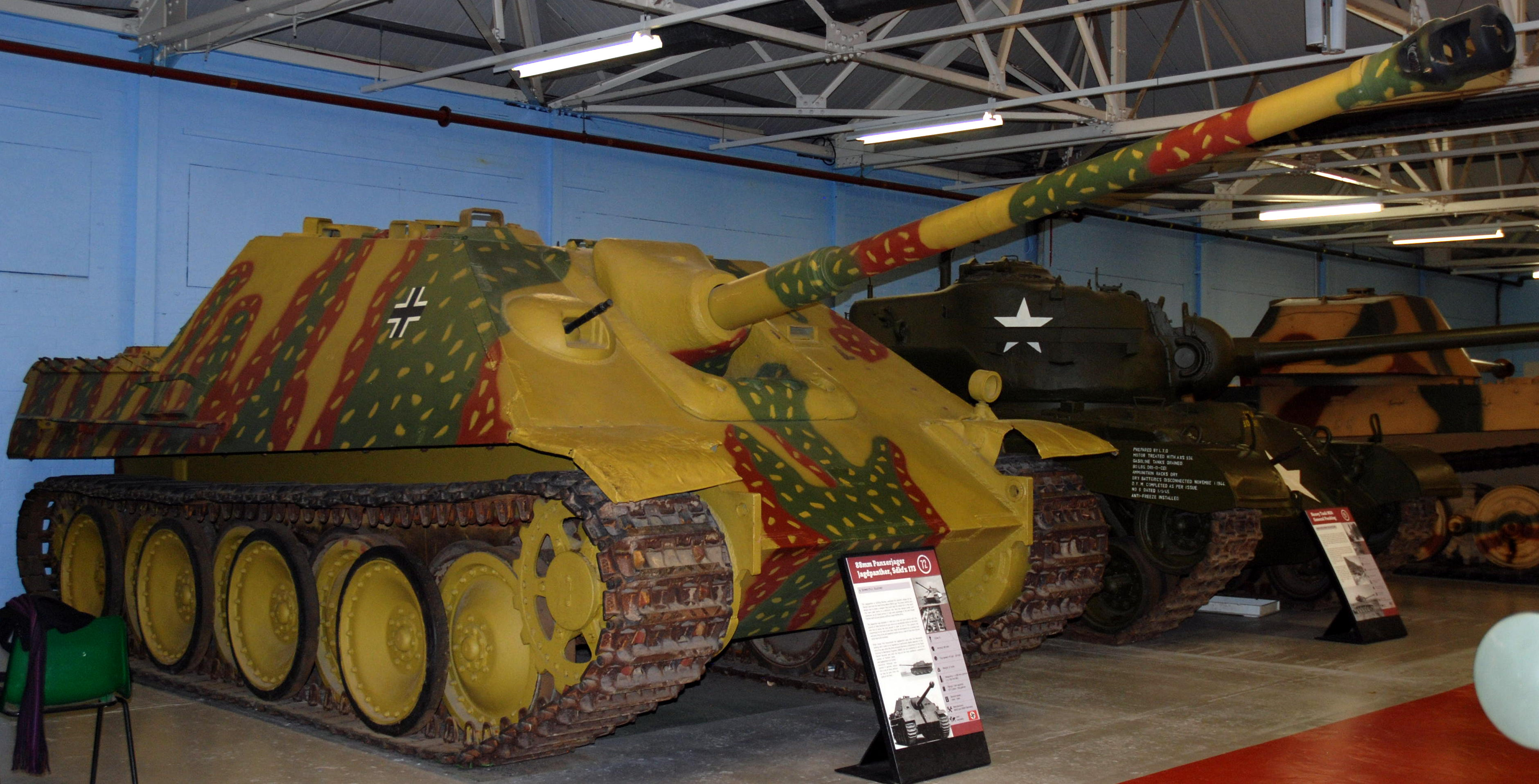 Photo ref;Nikon-D80-2013-DSC_1350 (Edited)